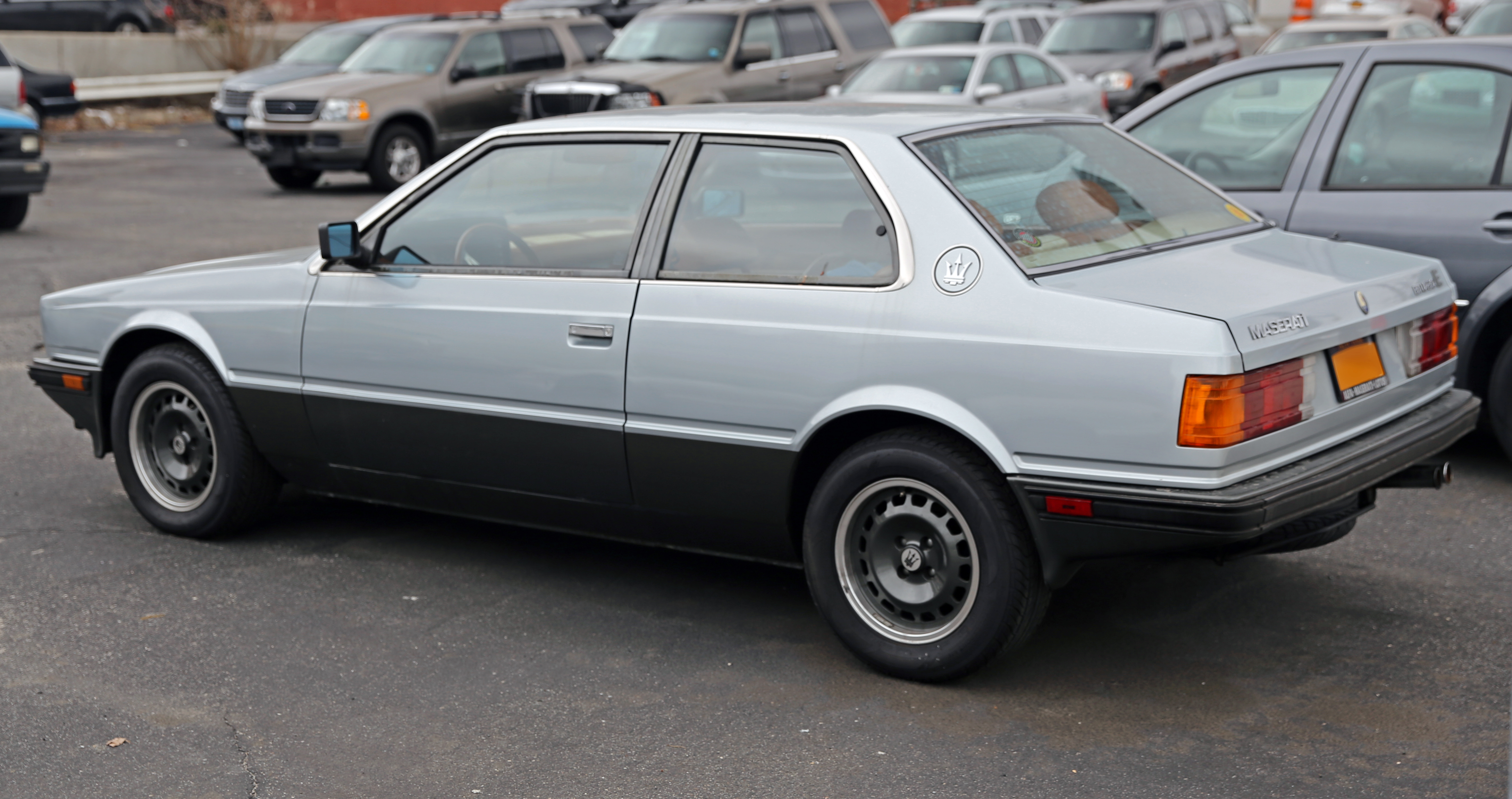 A 1985 Maserati Biturbo E, tipo AM 331B25. 2.5 litre twin-turbo V6, built in Modena. 1190 Maseratis were sold in the US in 1985. The "E" was a better equipped, sportier, version of the 2.5 litre Biturbo as sold in most export markets.